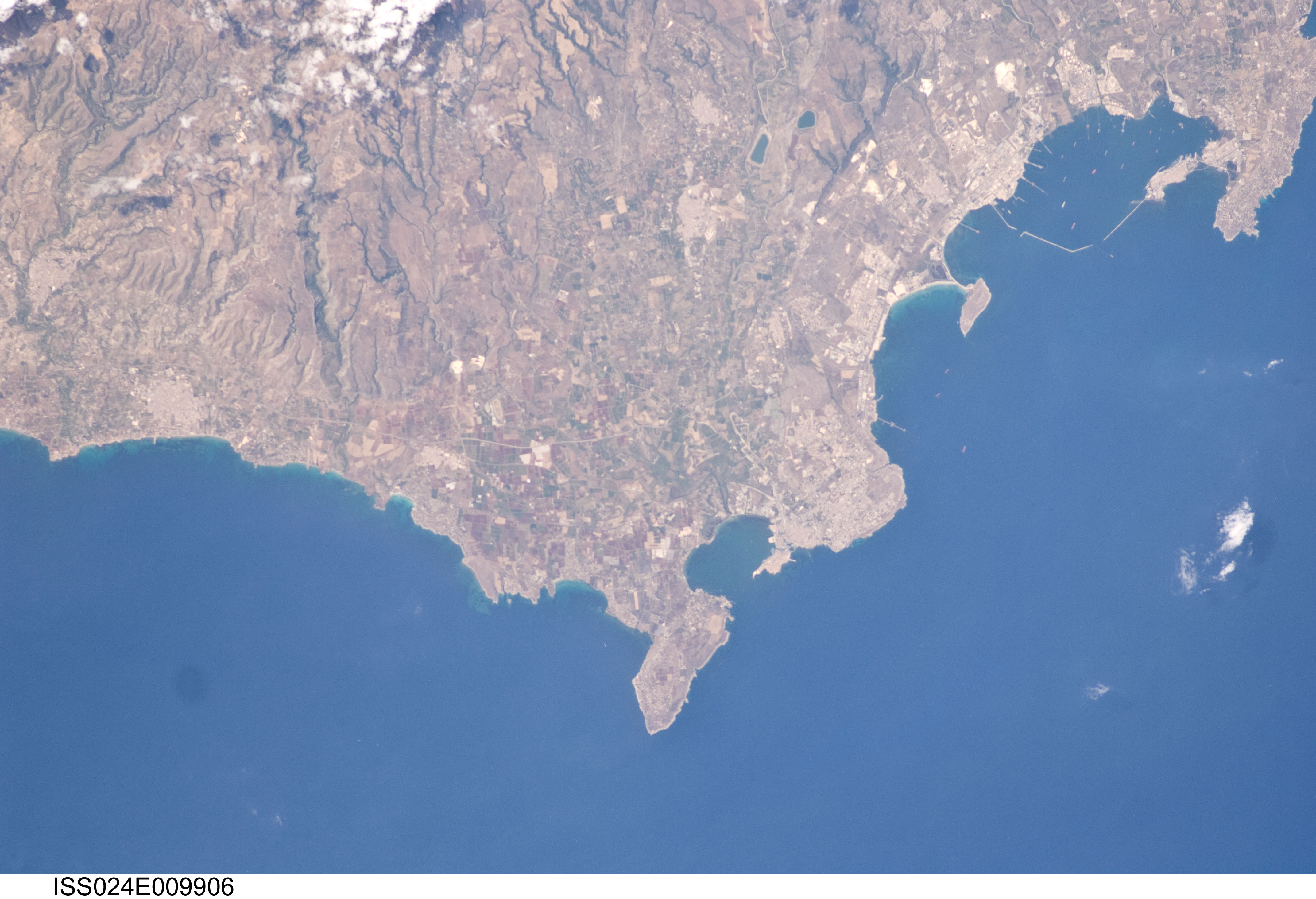 Syracuse and east of Sicily